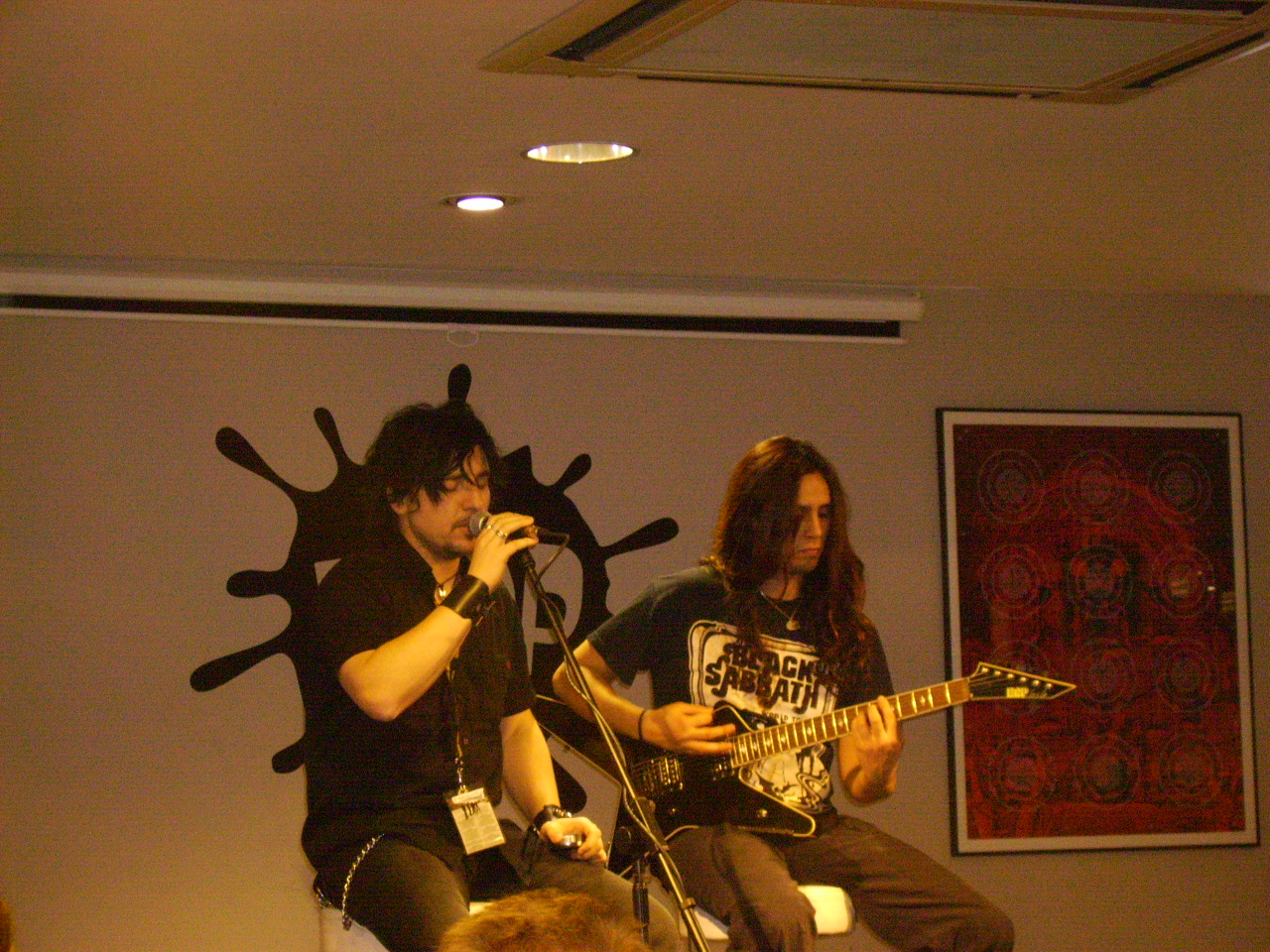 A photo of Apollo Papathanasio and Gus G. taken by Radagast1983 in Fopp, Tottenham Court Road, London on April 24 2007.